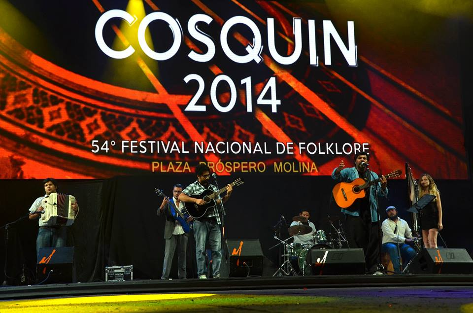 Joselo Schuap is a composer and singer from Oberá, Argentina. Today is consider the most popular Troubadour of the province of Misiones.